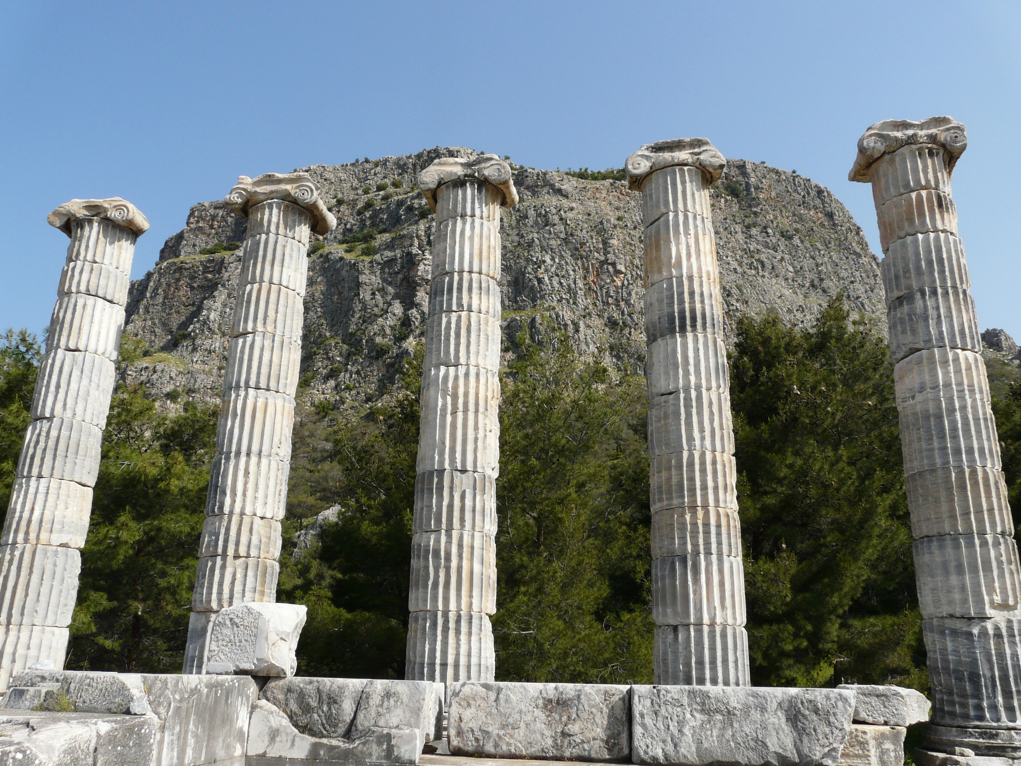 Athena temple at Priene